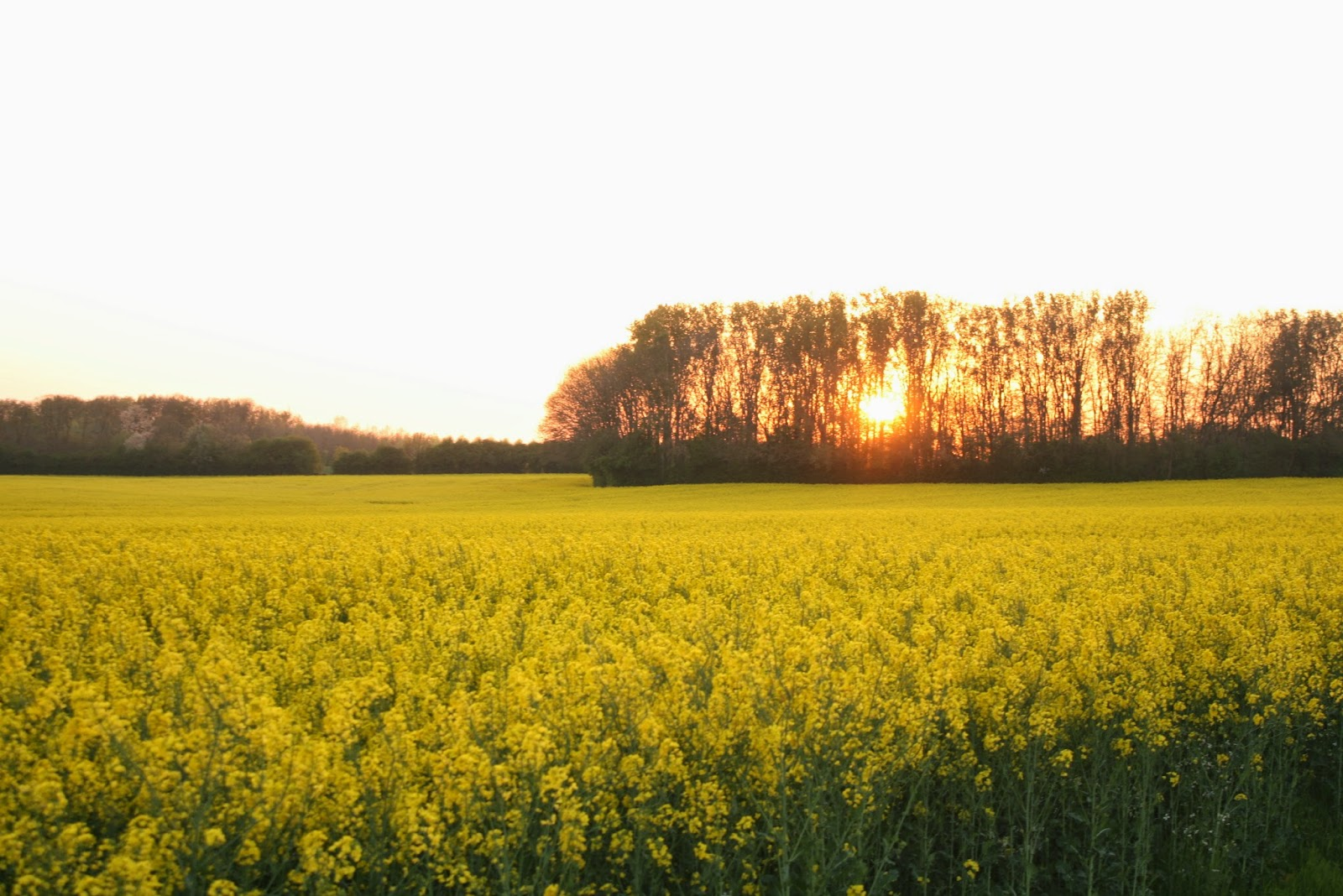 Field of rapeseed at dusk (France)